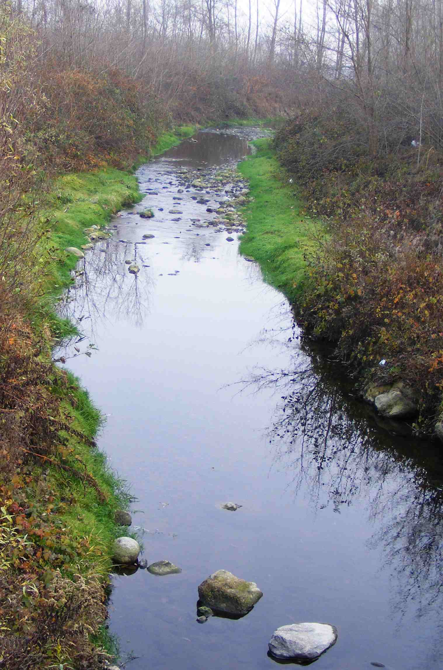 Levone creek between Rivara and Barbania (TO, Italy)